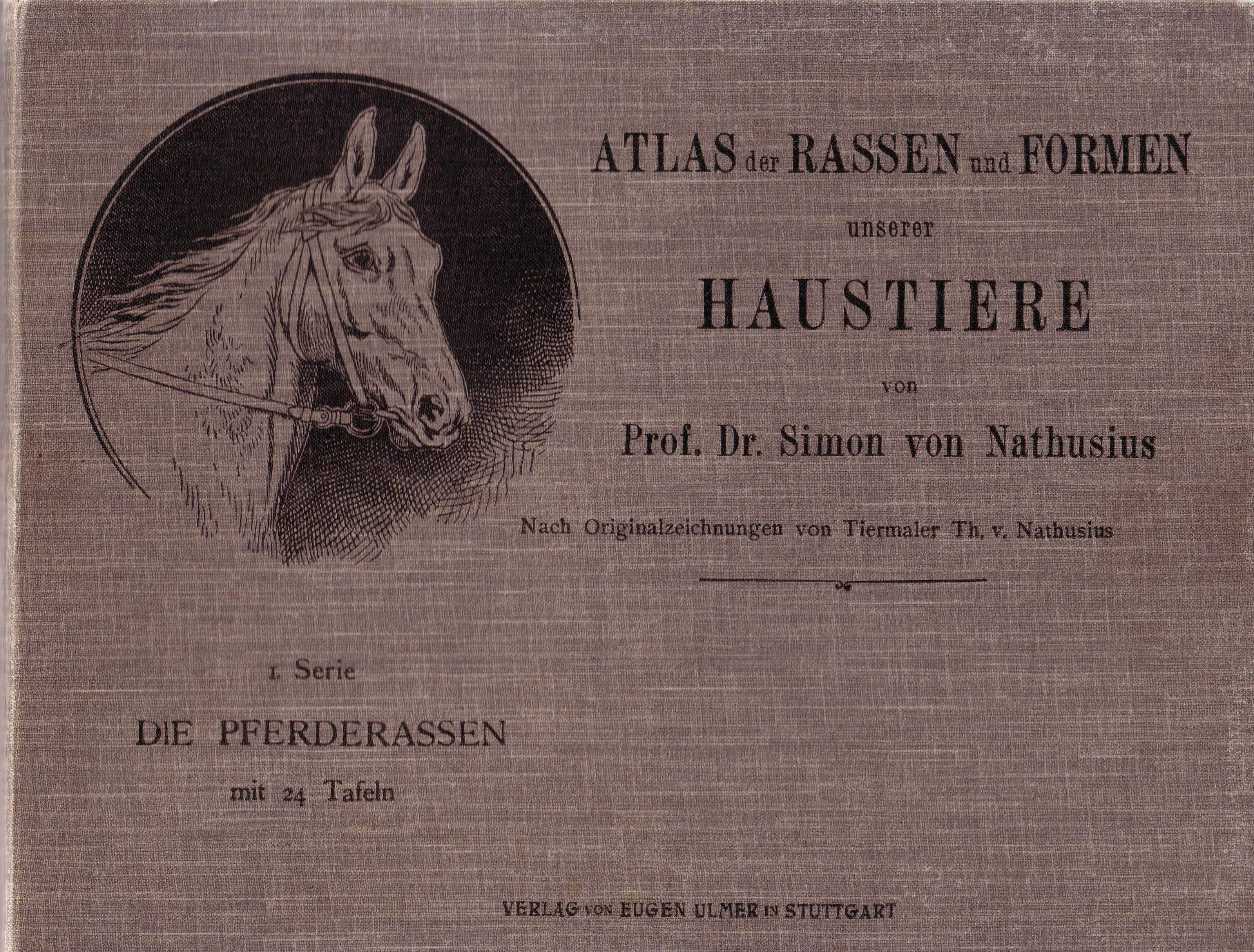 old book covaer, Simon von Nathusius